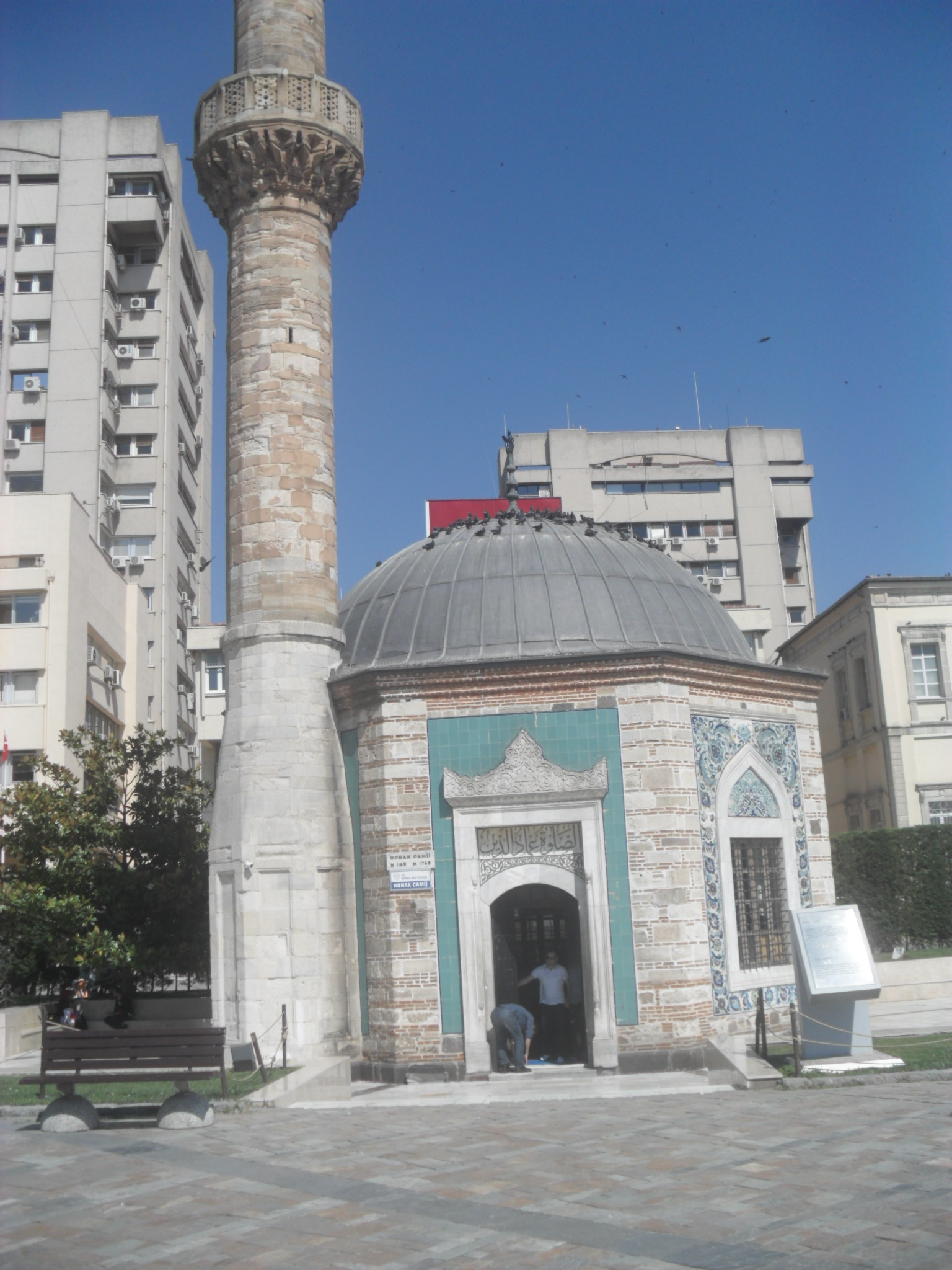 18th century mosque in Konak Square of İzmir Turkey